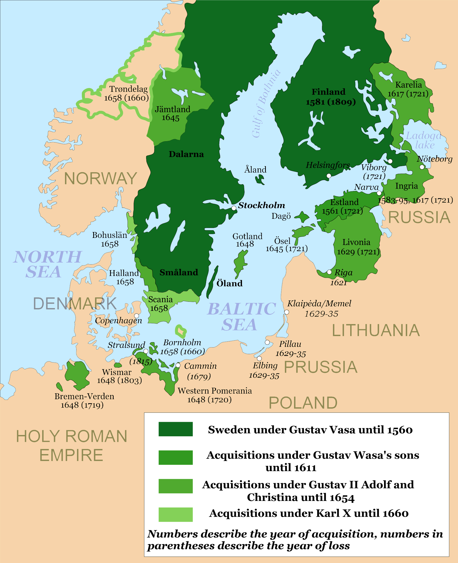 Map showing the development of the Swedish Empire in Early Mordern Europe (1560-1815)